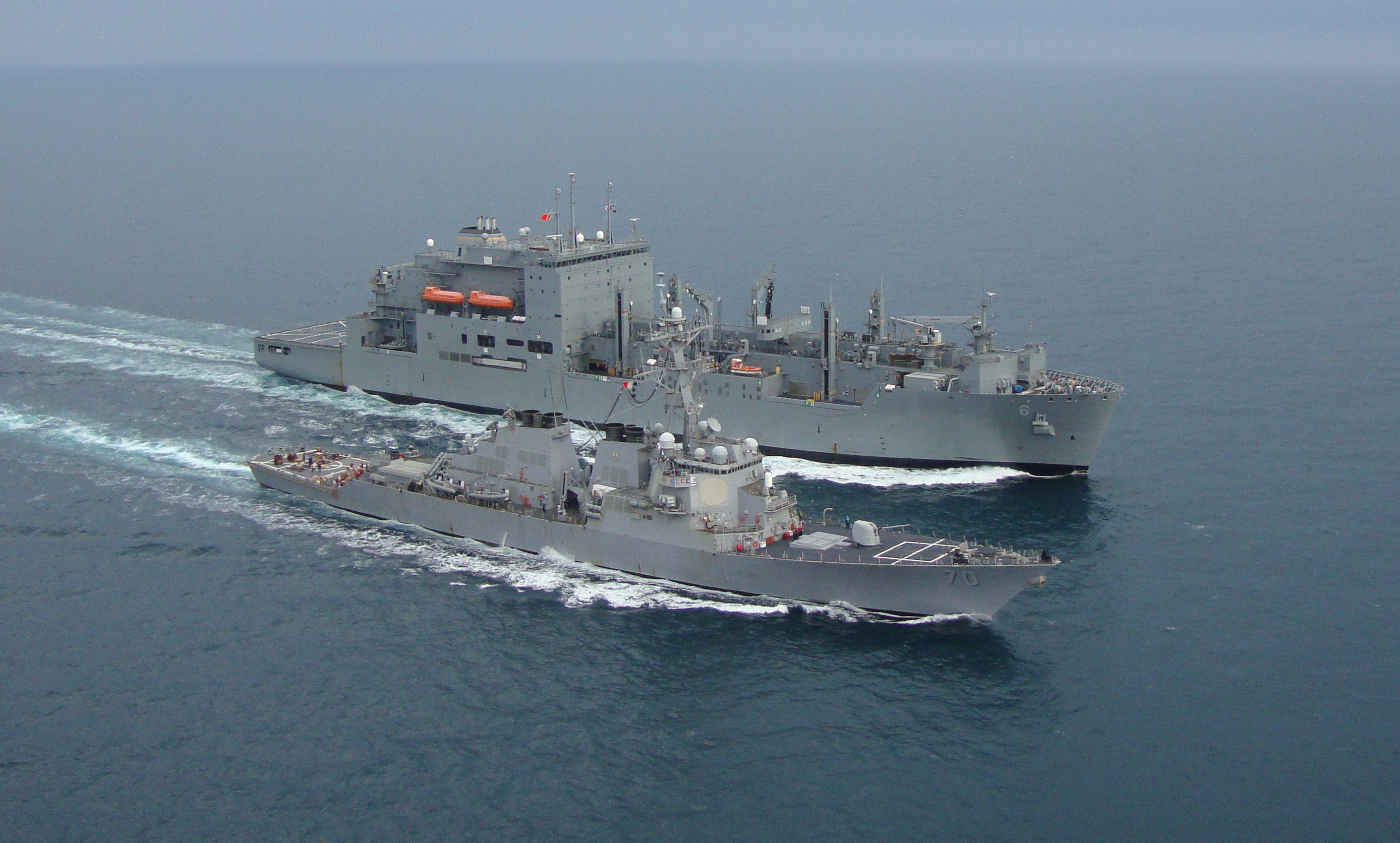 091128-N-0000X-057 PERSIAN GULF (Nov. 28, 2009) The Arleigh Burke-class guided-missile destroyer USS Hopper (DDG-70) and the Military Sealift Command dry cargo/ammunition ship USNS Amelia Earhart (T-AKE-6) conduct an underway replenishment in the U.S. 5th Fleet area of responsibility. Photograph cropped and straightened by contributor. This is a retouched picture, which means that it has been digitally altered from its original version. Modifications: straightened, cropped.